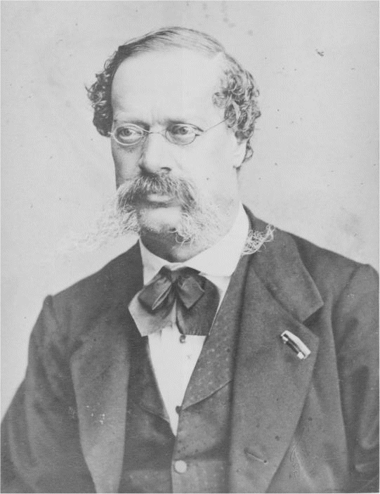 Heinrich Proch ( July 22, 1809, Vienna – December 18, 1878, Vienna) was an Austrian composer.